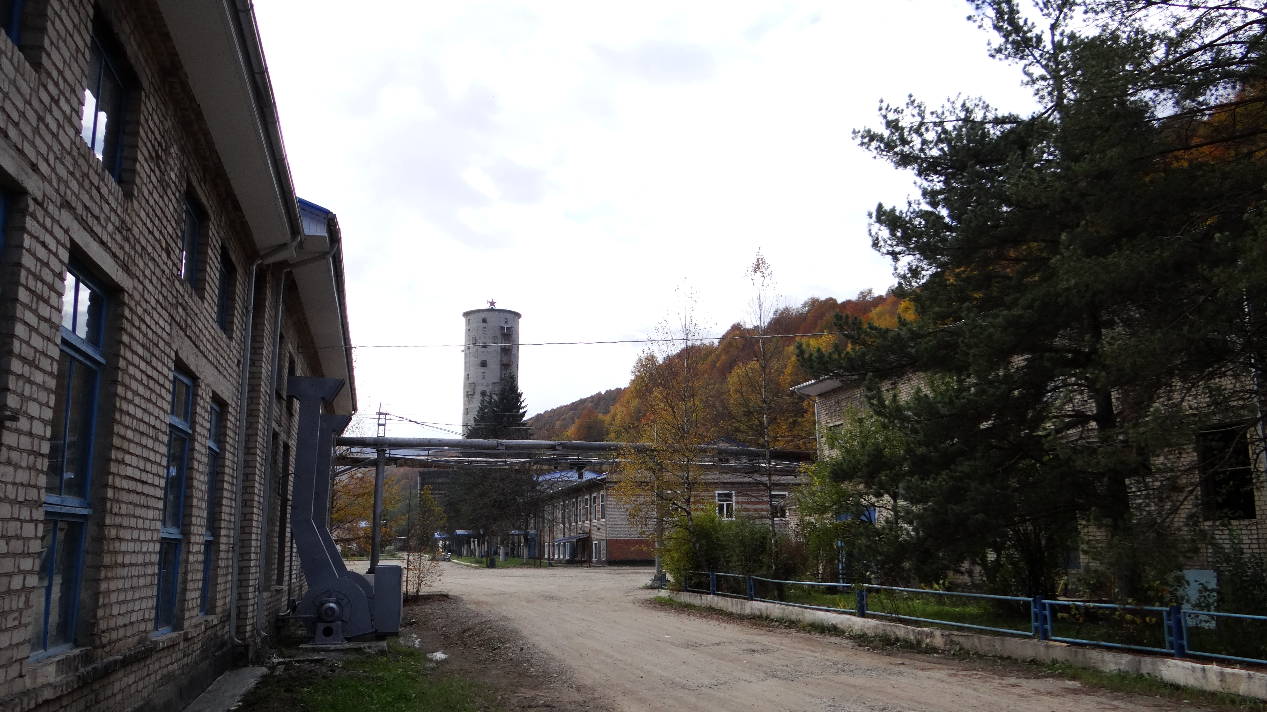 Urupsky District, Karachay-Cherkessia, Russia